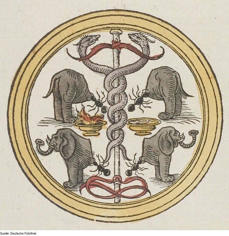 Original image description from the Deutsche Fotothek Emblemata